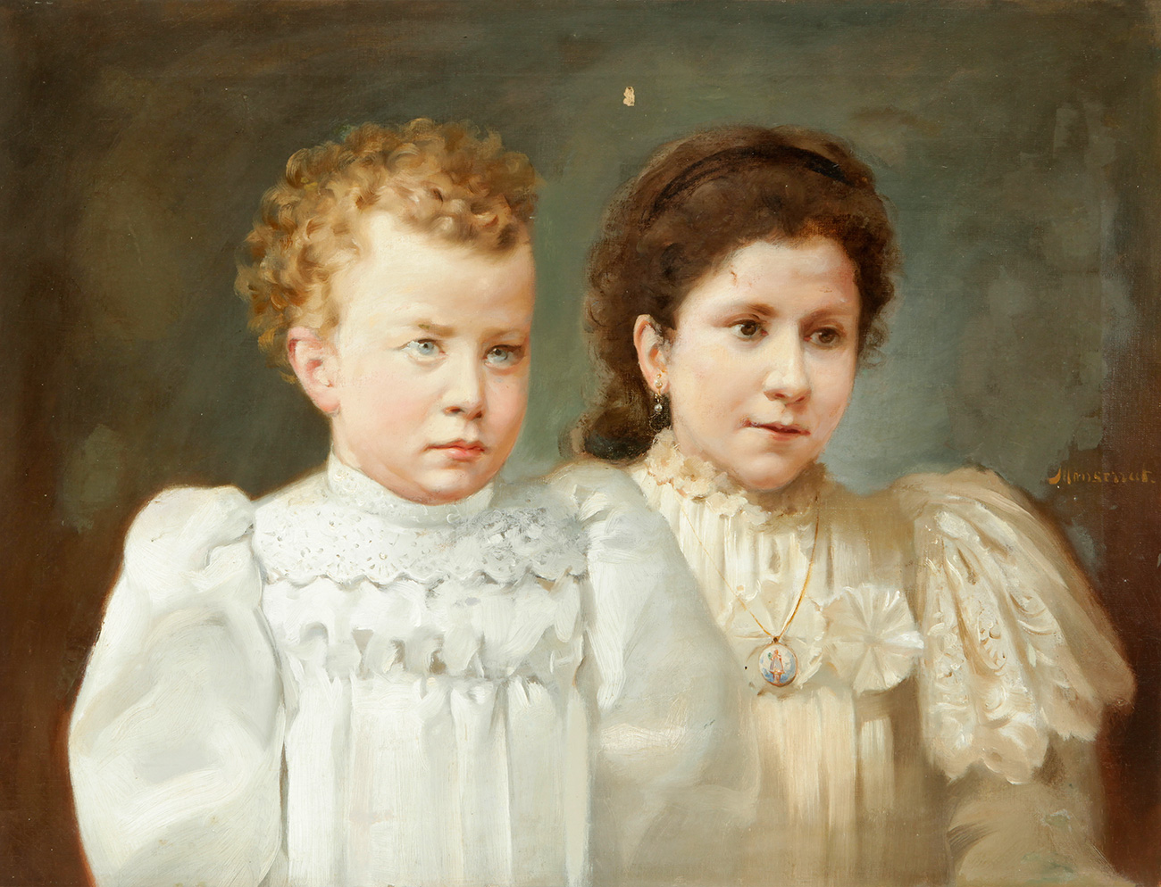 Dos Germans- Cristofol Montserrat Jorba